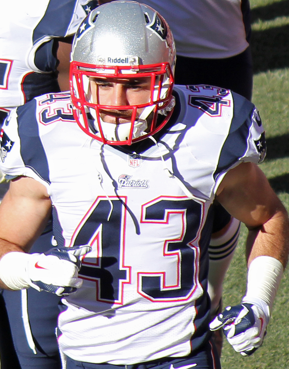 Nate Ebner, a player on the National Football League.